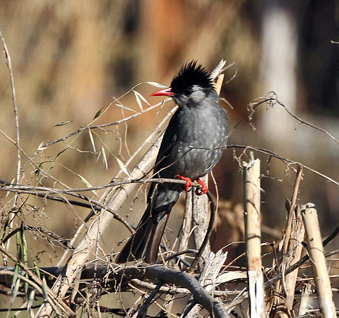 Black bulbul Hypsipetes leucocephalus race psaroides in Kullu District of Himachal Pradesh, India.